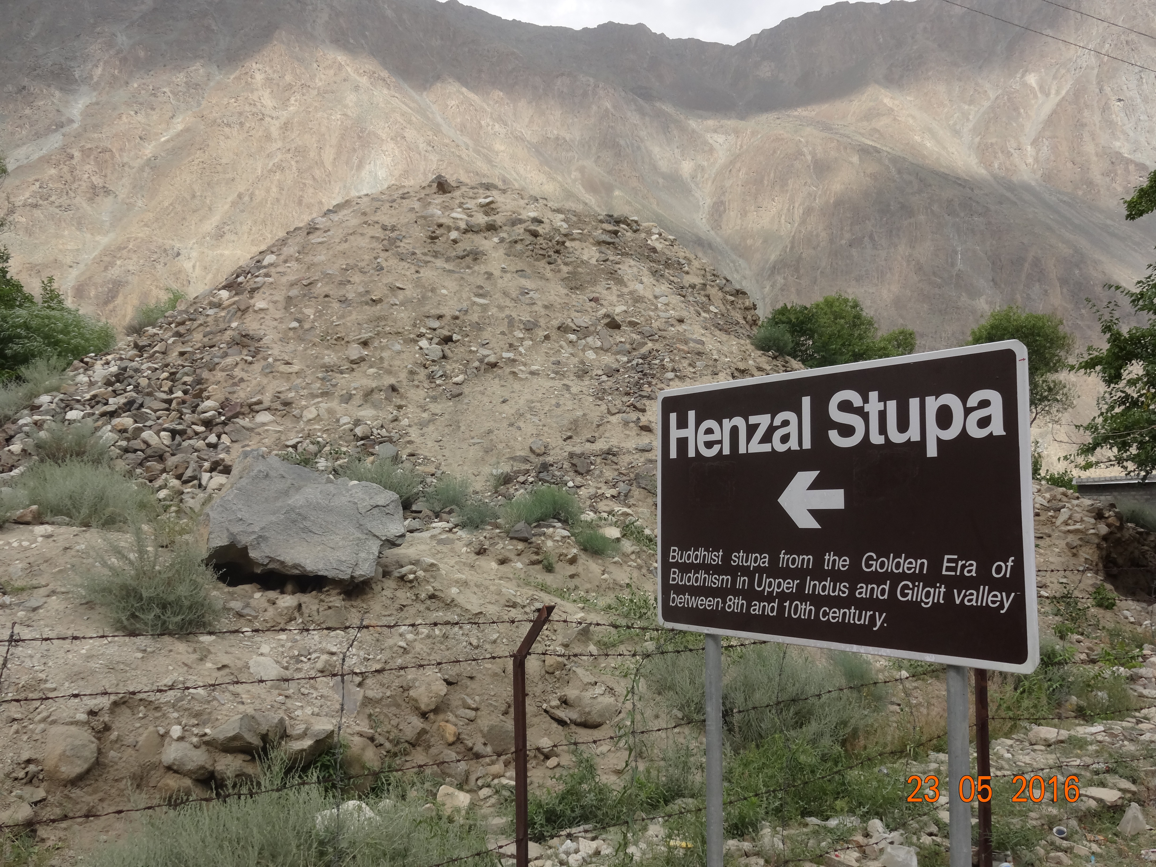 A picture of Buddhist Stupa from the Golden Era of Bhuddism in the upper Indus and Gilgit Valley between 8th and 10th century.